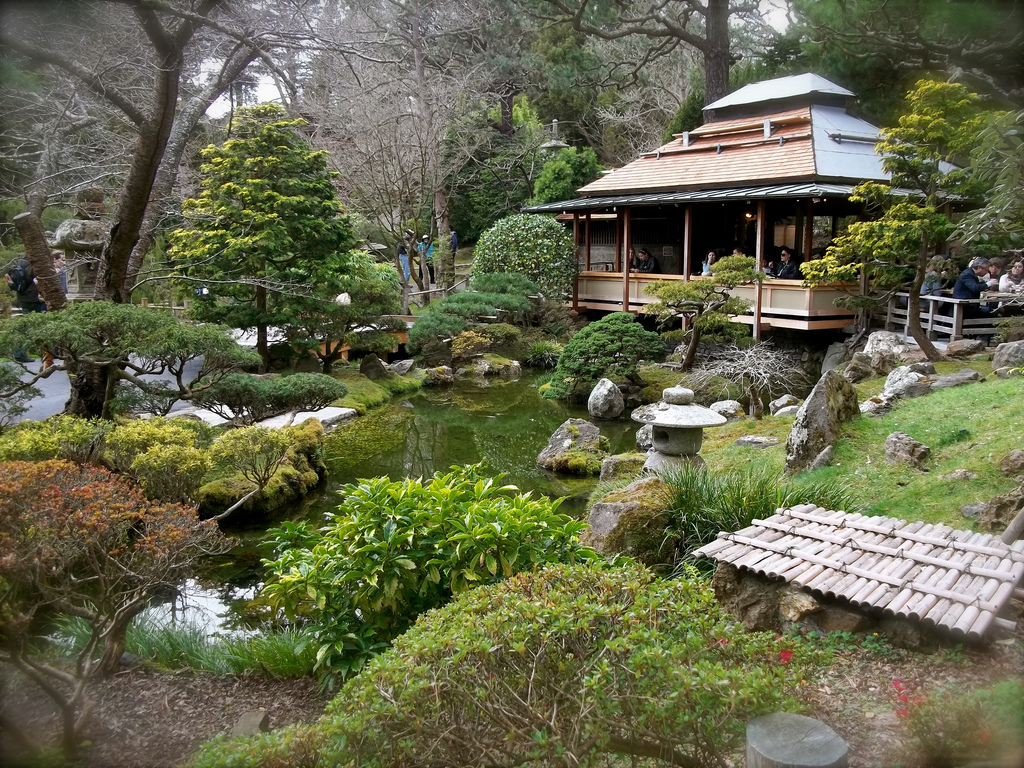 View of one of the ponds and the eatery in the Japanese Tea Garden.